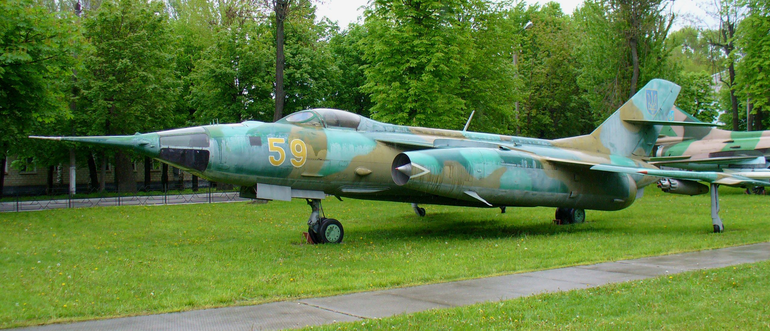 Yakovlev Yak-28PP (NATO reporting name - Brewer-E). Un-armed electronic countermeasures aircraft with an extensive EW(electronic warfare) suite in the bomb bay. Ukrainian Air Force Museum in Vinnitsa.